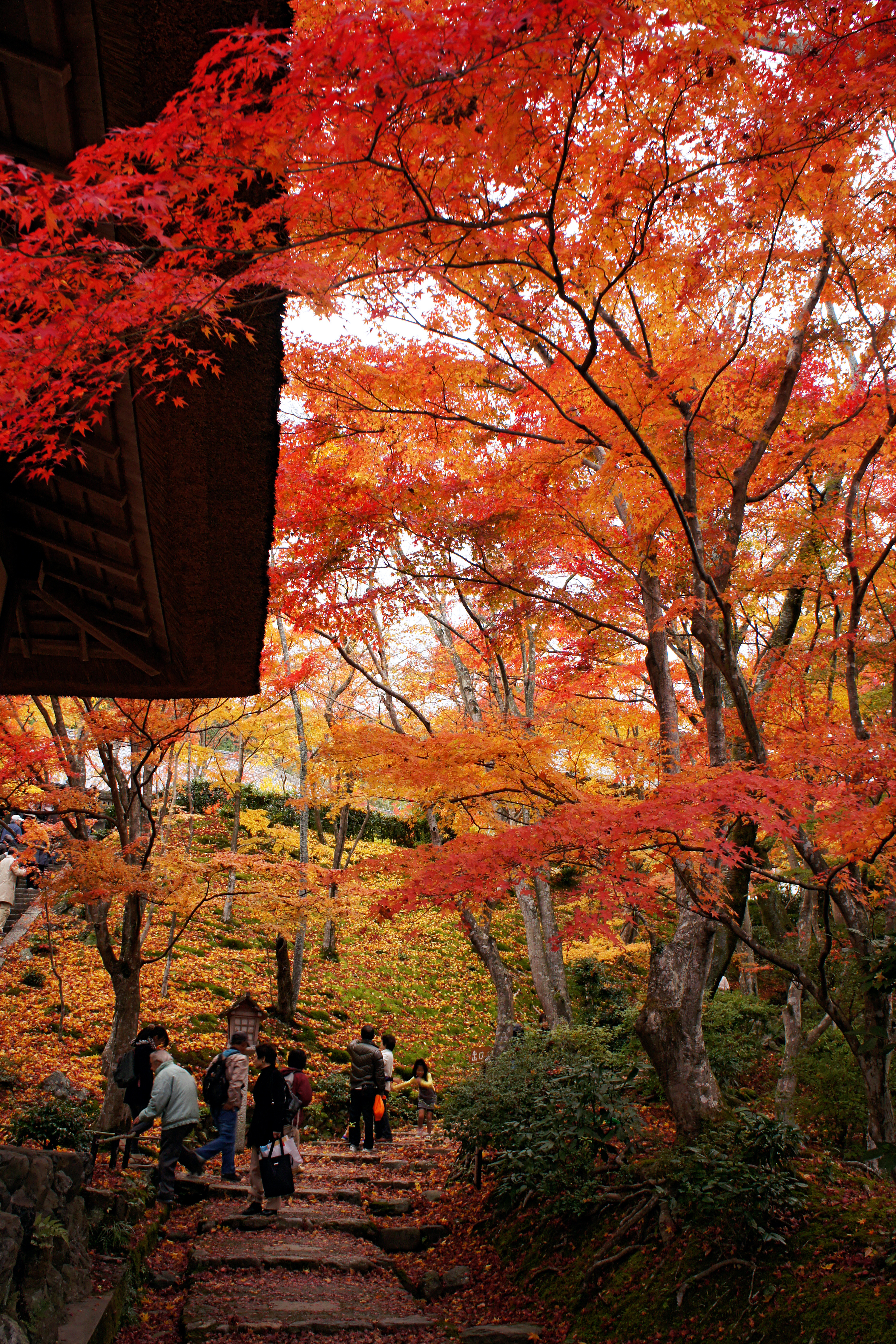 Jojakko-ji in Sagano, Kyoto, Kyoto prefecture, Japan